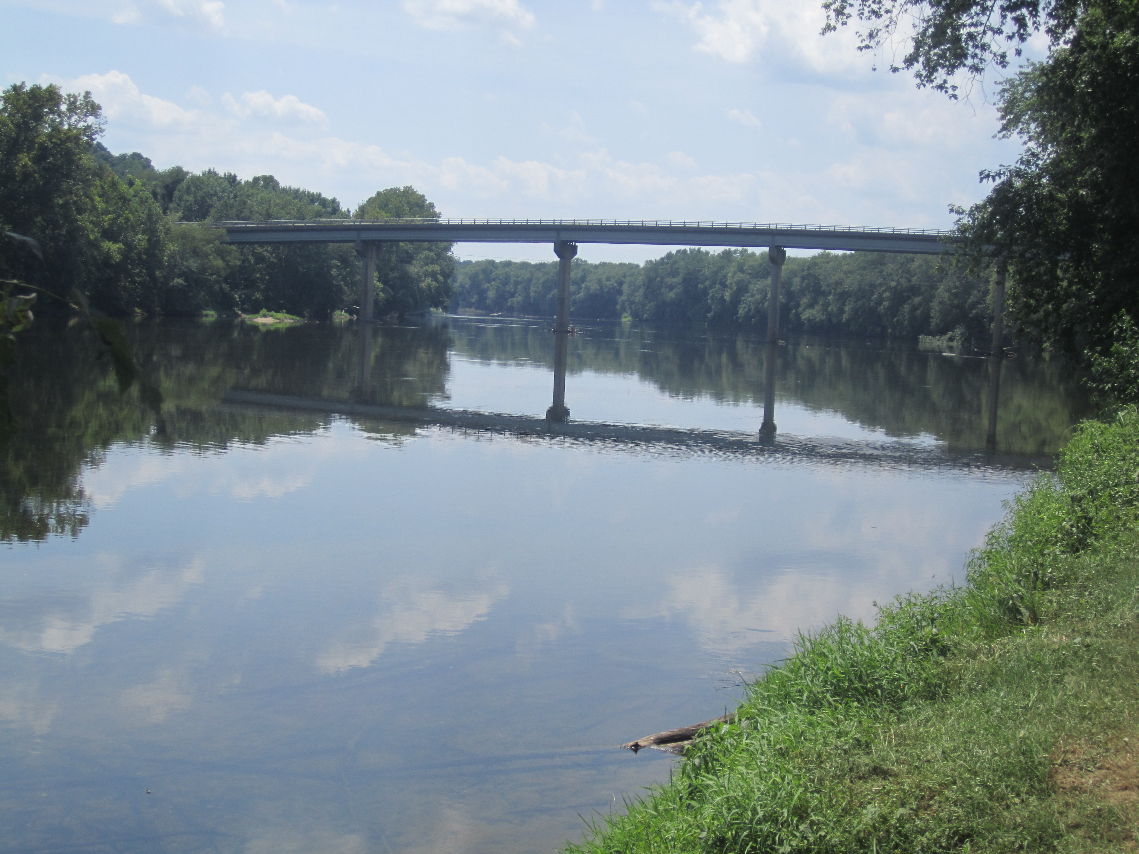 I took photo of James River at Scottsville, VA, with Canon camera.